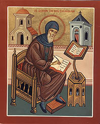 Symeon_the_New_Theologian (ortodox icon)